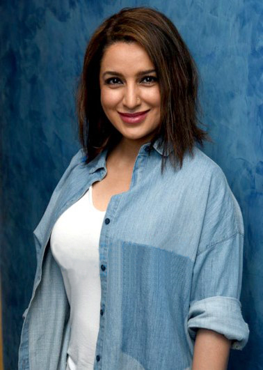 Tisca Chopra graces the screening of Sonata